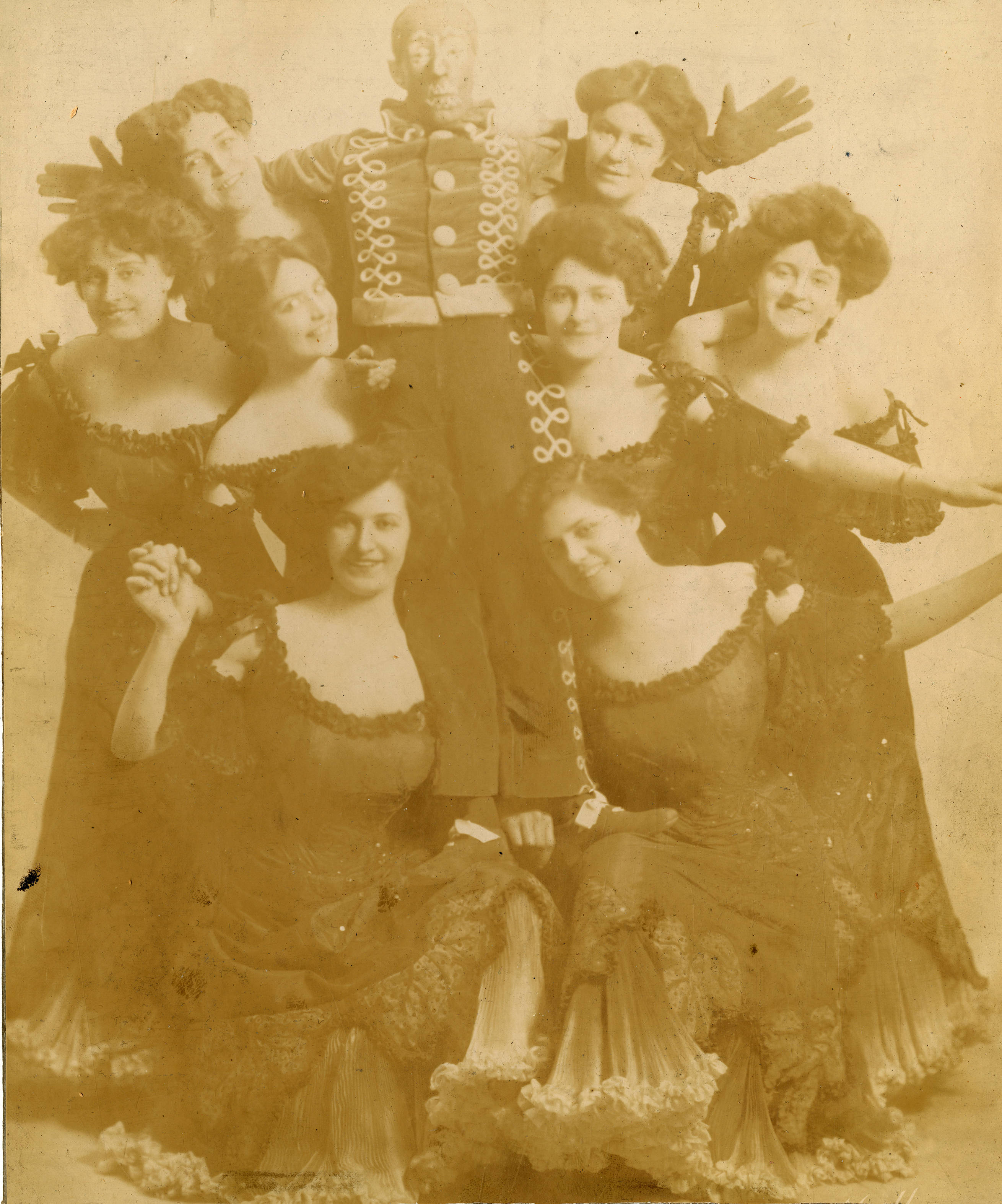 A scene from "The Gingerbread Man," which opened Ap. 18, 1909, at the Grand Opera House, Seattle. Includes Fred Nice. Subjects: plays, actors